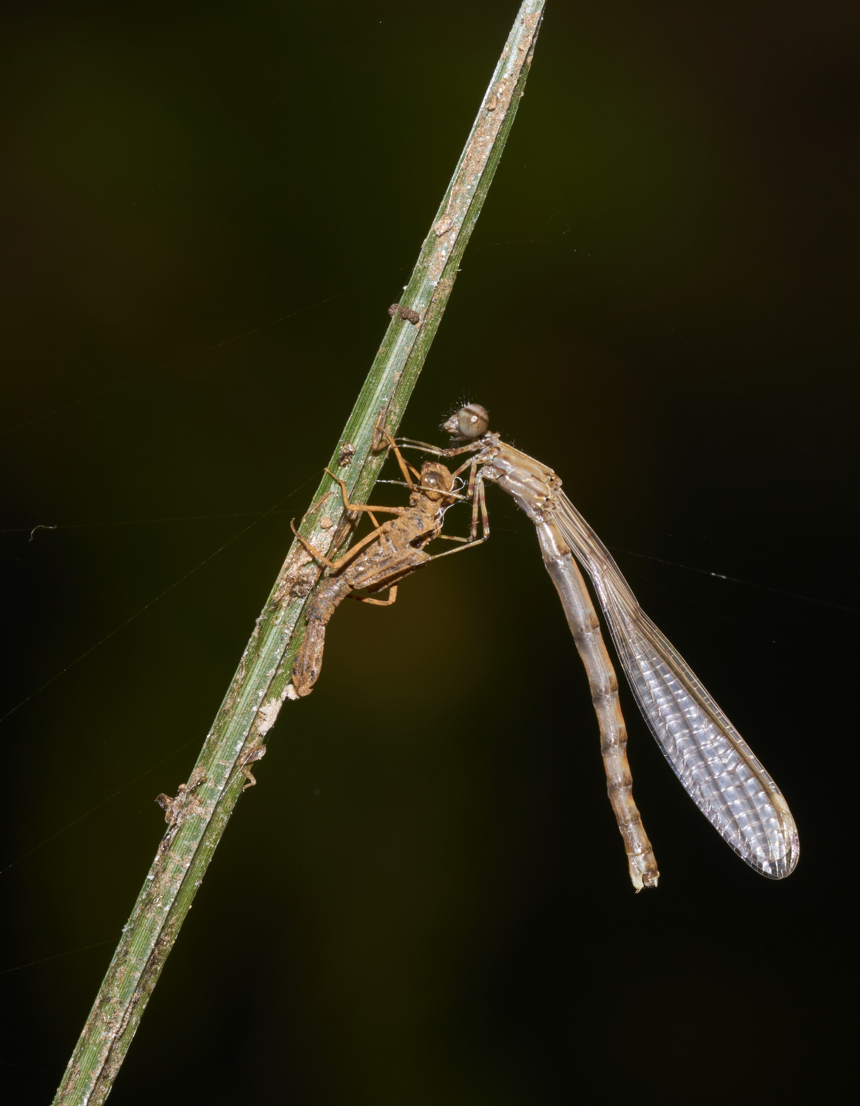 Prodasineura verticalis emergence.